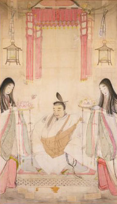 Taira no Shigemori as minister of laterns, draft